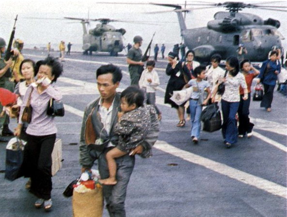 Vietnamese refugees debarking from Sikorsky CH-53 Sea Stallions of Heavy Marine Helicopter Squadron HMH-463 aboard the U.S. Navy aircraft carrier USS Hancock (CVA-19) in April 1975. Hancock embarked HMH-463 to take part in operations "Eagle Pull" and "Frequent Wind". Most of her regular air group had been flown to Subic Bay, Philippines.